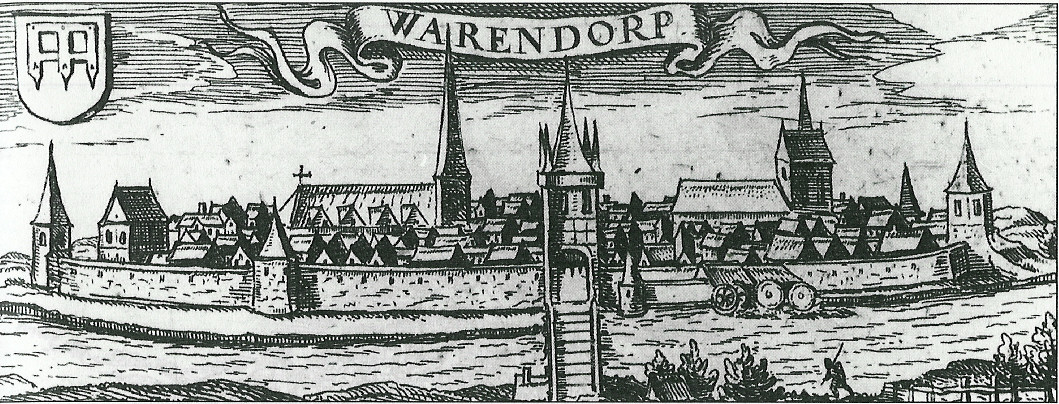 1616 View on Warendorf, Westphalia, Germany. Engraving by Johannes Gigas, 1616